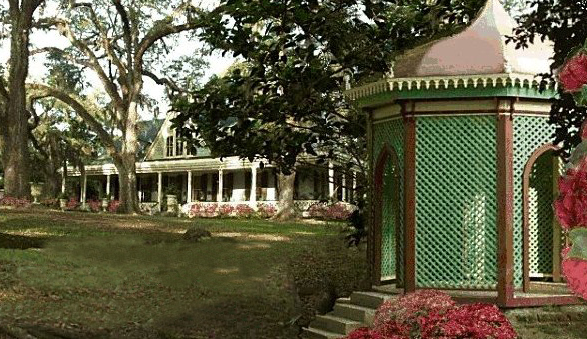 Original gazebo with Butler Greenwood Plantation in the background.